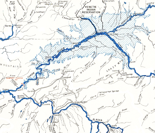 A map of the proposed reservoir that would have been created by the Rampart Dam on the Yukon River in Alaska. Actual rivers are in dark blue, and the proposed reservoir is shaded in diagonal blue. Fairbanks, Alaska, is at center bottom. This map is an excerpt of a larger map published in 1962.